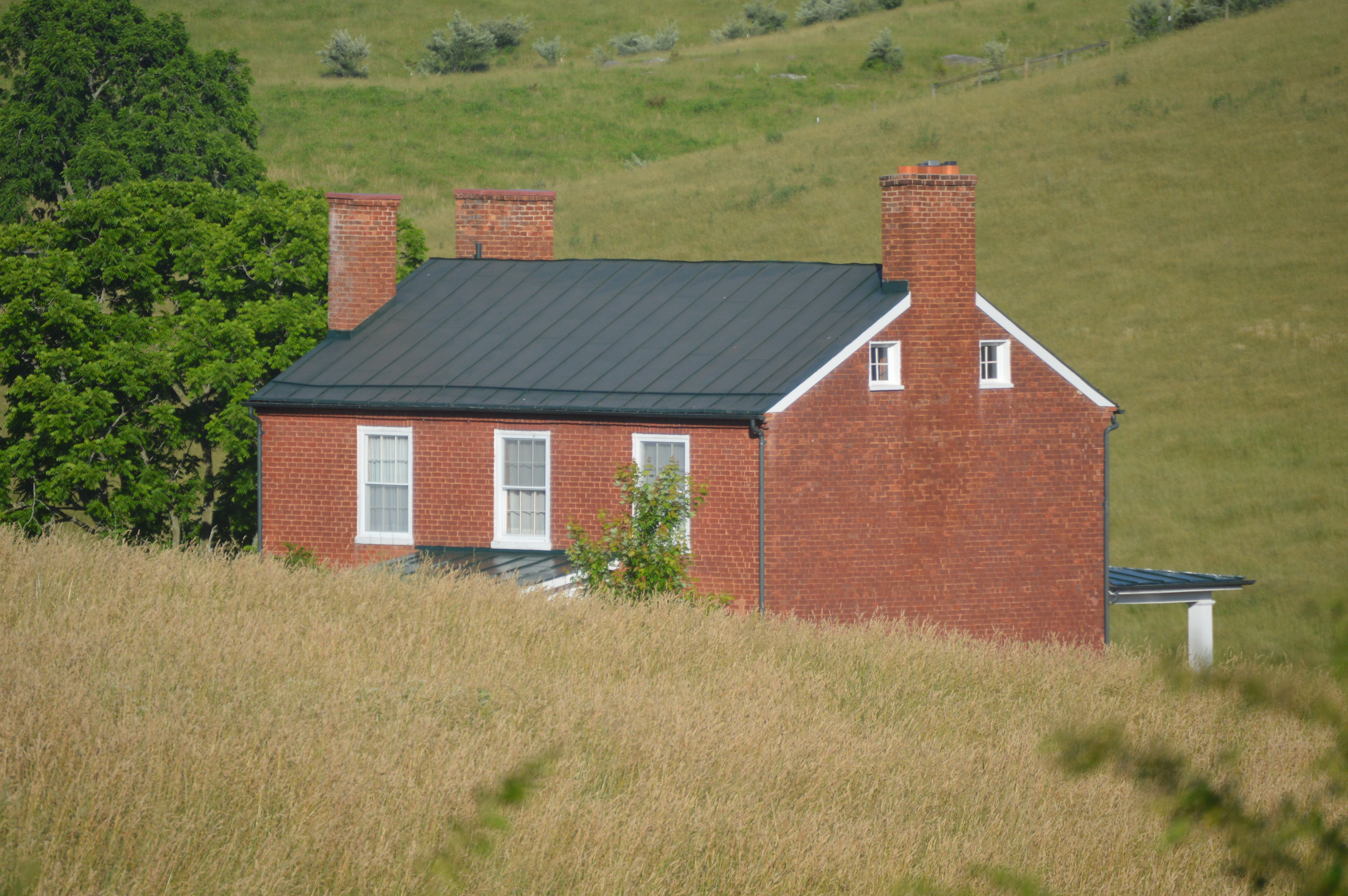 Rear and southwestern side of the Margaret E. Poague House, located at 4907 S. U.S. Route 11 northeast of Natural Bridge in Rockbridge County, Virginia, United States. Built in 1847, it is listed on the National Register of Historic Places.